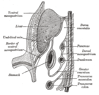 Schematic figure of the bursa omentalis, etc. Human embryo of eight weeks. (note: the label for duodenum and transvercolon should be switched) (Kollmann.)